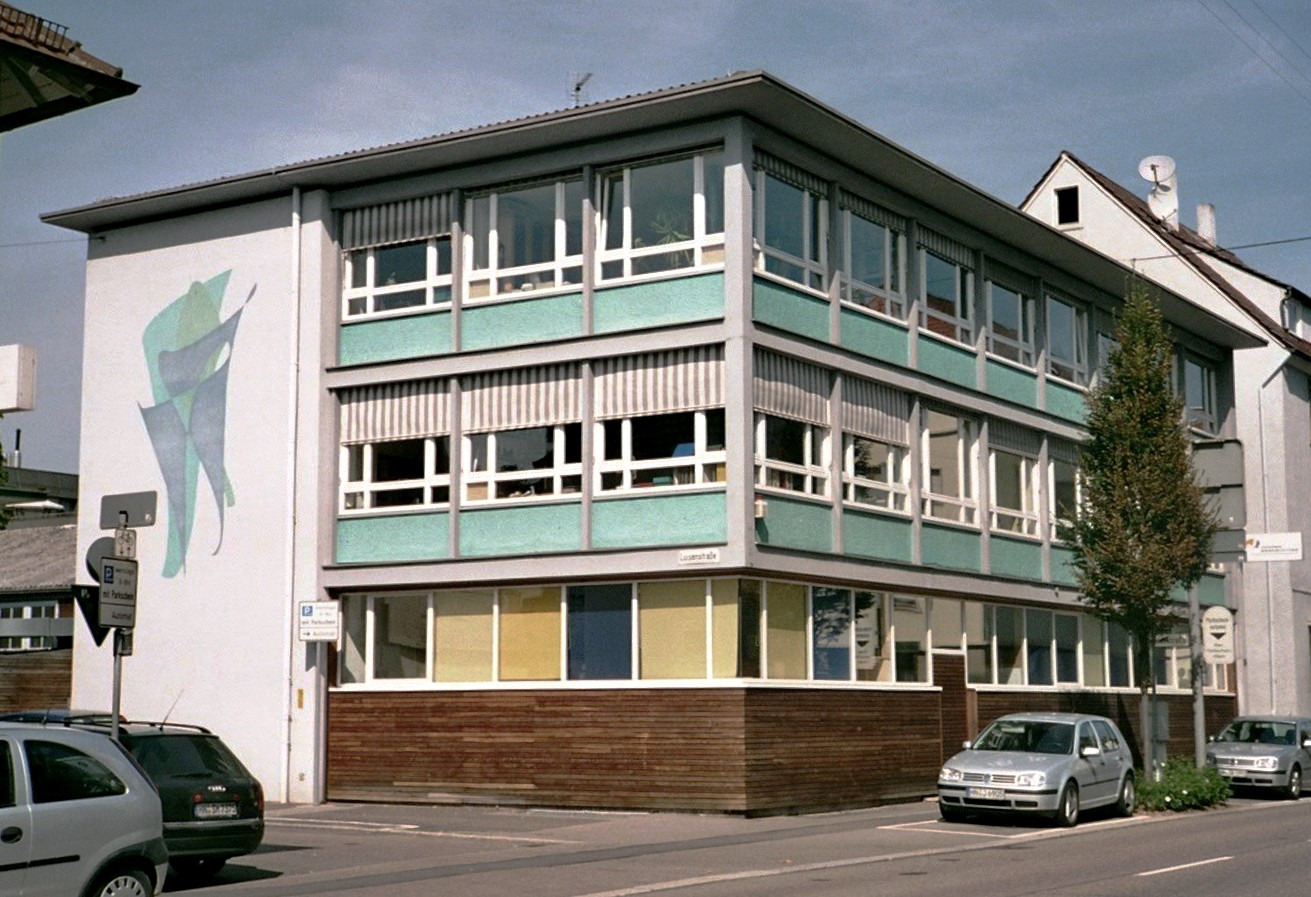 Hn-wilhelmstr_26_Ex-Autohaus_Heerman_eröffnet_am_19._Dezember_1953_Pläne_Architekt_Kurt_Marohn.jpg